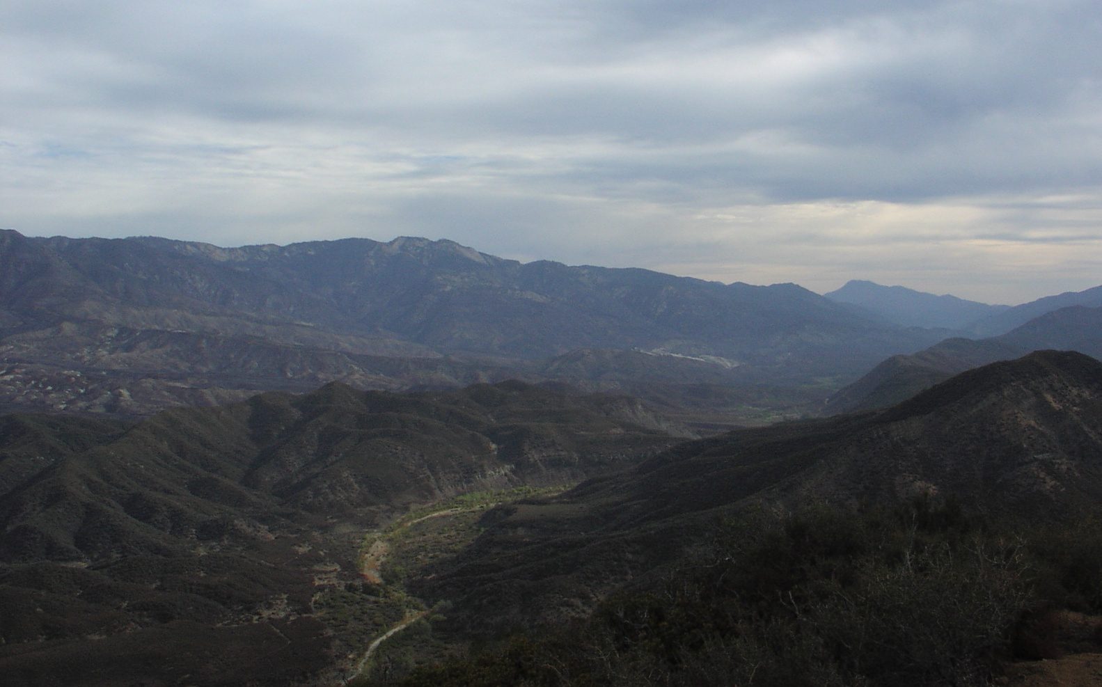 Upper Sespe Creek and the Topatopa Mountains and San Emigdio Mountains — northeastern Ventura County, California. View east from the top of Dry Lakes Ridge (no road or trail to this location). An example of California montane chaparral and woodlands habitat, within the southern Los Padres National Forest.